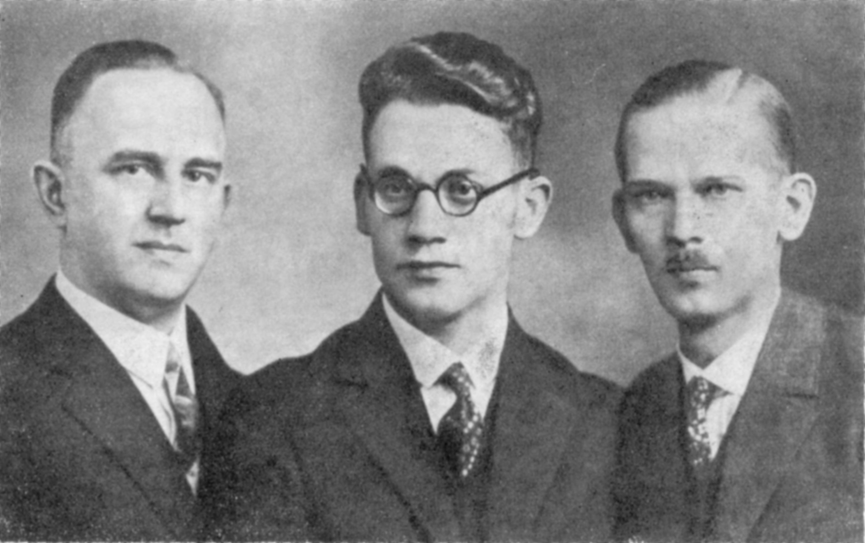 Leaders of Union of Poles in Germany (Polish: Związek Polaków w Niemczech), from the left: Stefan Szczepaniak, Jan Kaczmarek, Józef Michałek.